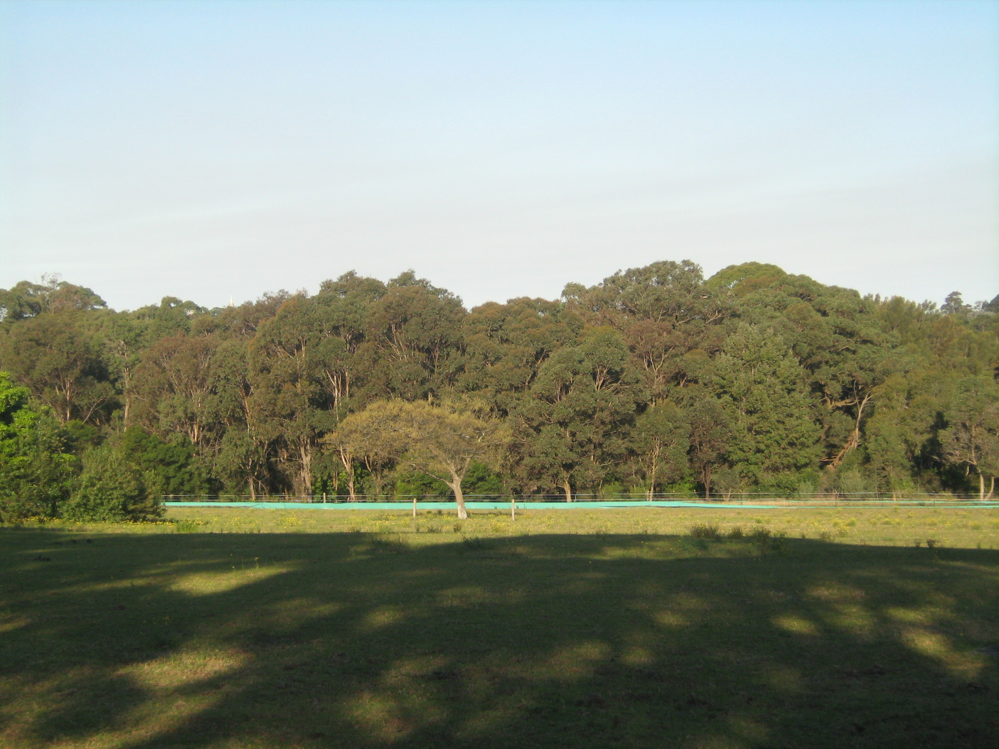 Closeup of remnant Sydney Turpentine-Ironbark forest, Yaralla Estate, Concord West, NSW.